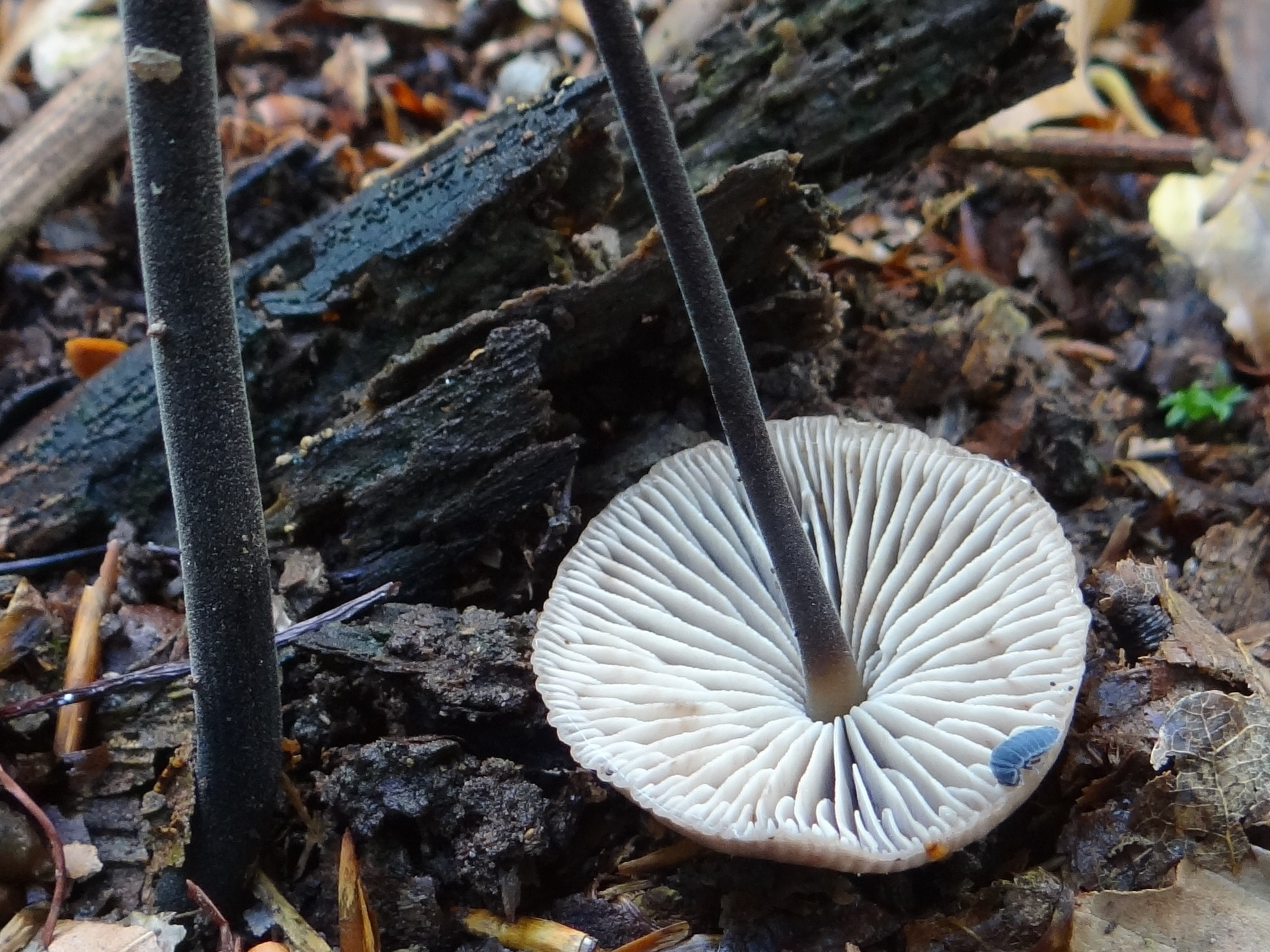 Mycetinis alliaceus